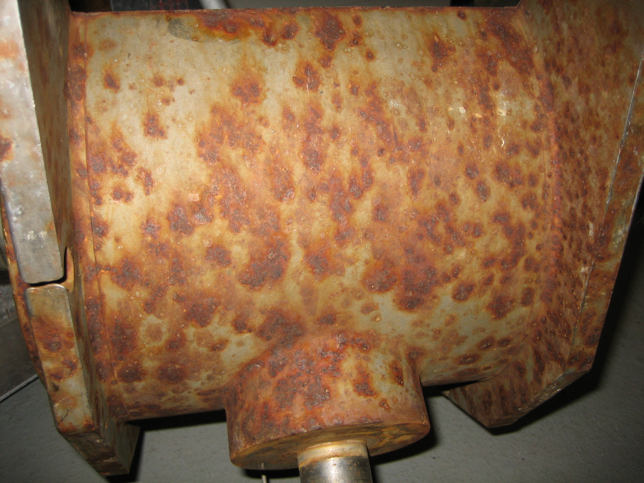 fouling of metal